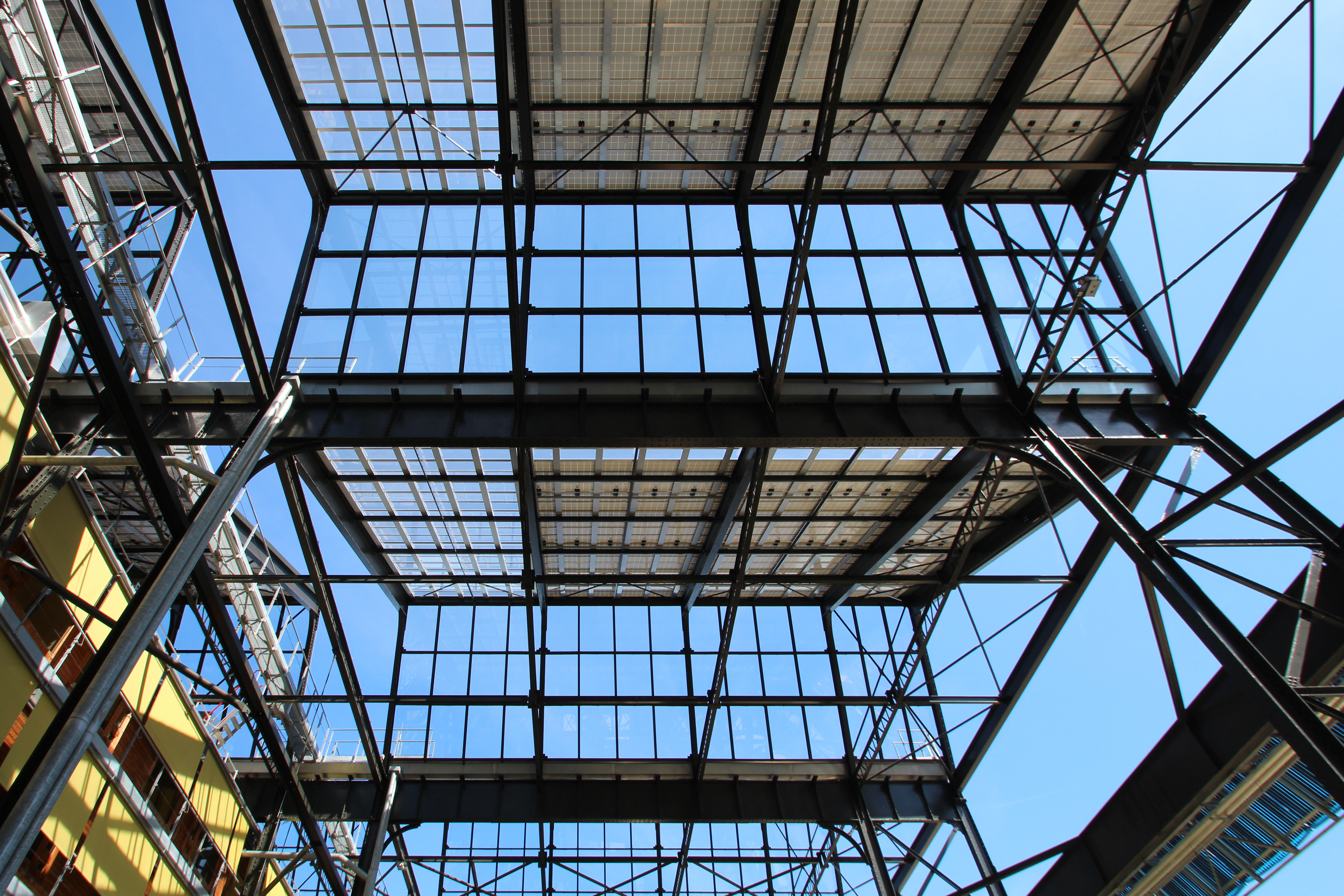 Rosa-Luxemburg gardens in Paris, France. Object location48° 53′ 21.77″ N, 2° 21′ 48.38″ E This picture as been uploaded as part of L'Été des régions Wikipédia.